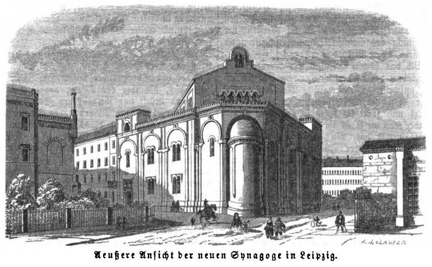 caption: "Aeußere Ansicht der neuen Synagoge in Leipzig."